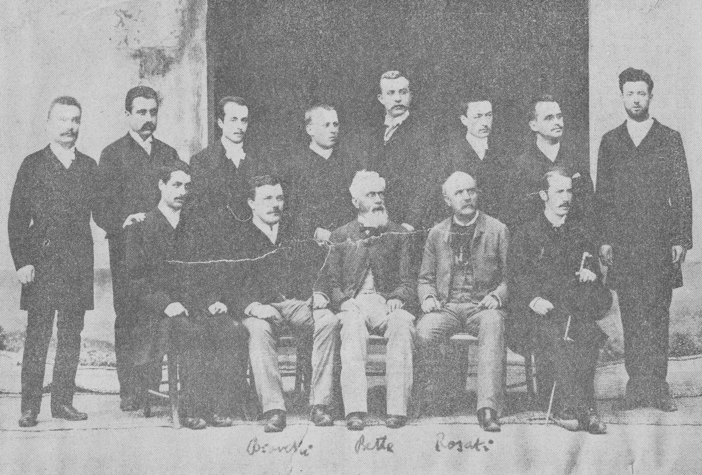 Group shot of professors and students of Scuola Normale of Pisa, Tuscany, Italy.